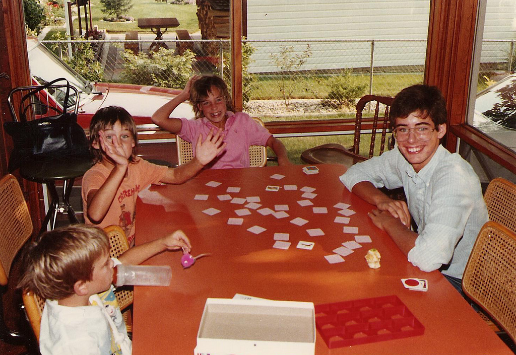 Playing memory game.